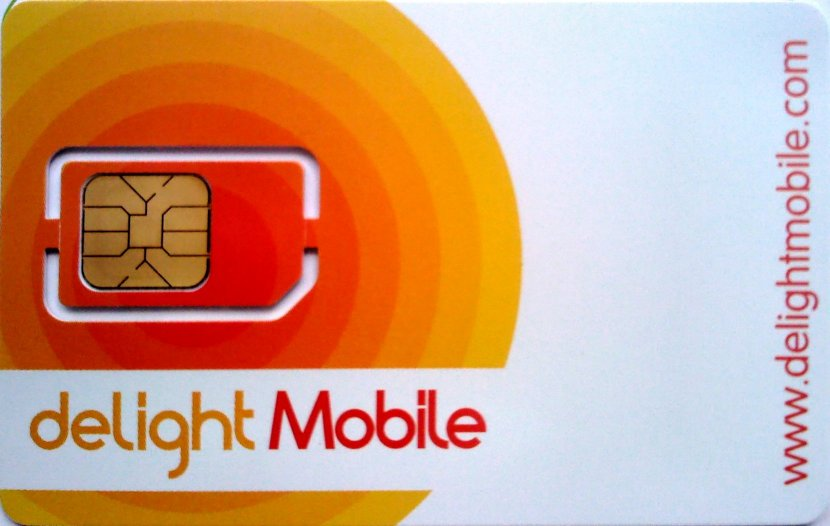 SIM card from Delight Mobile